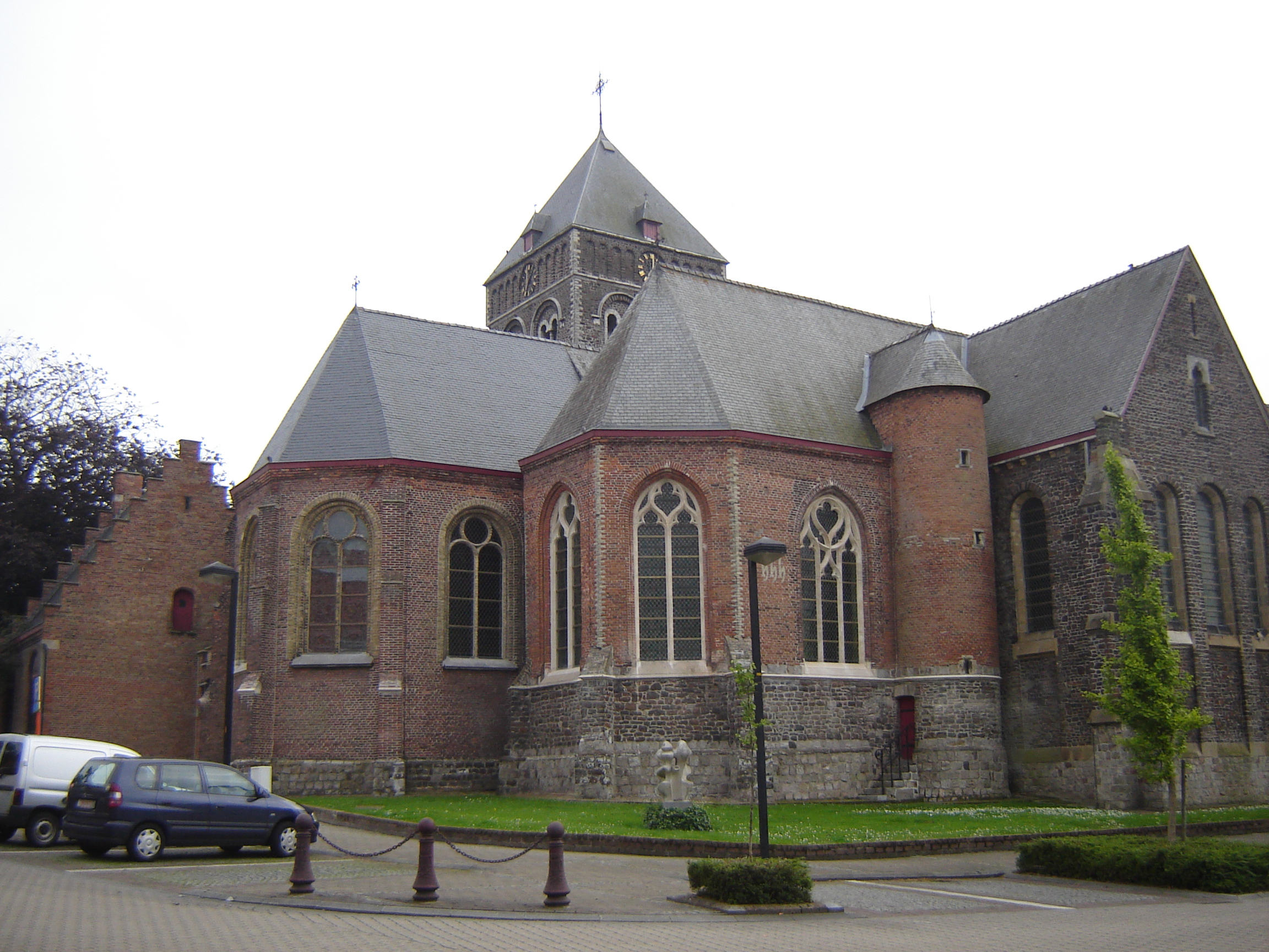 Church of Saint Dionysus in Geluwe, Wervik, West-Flanders, Belgium